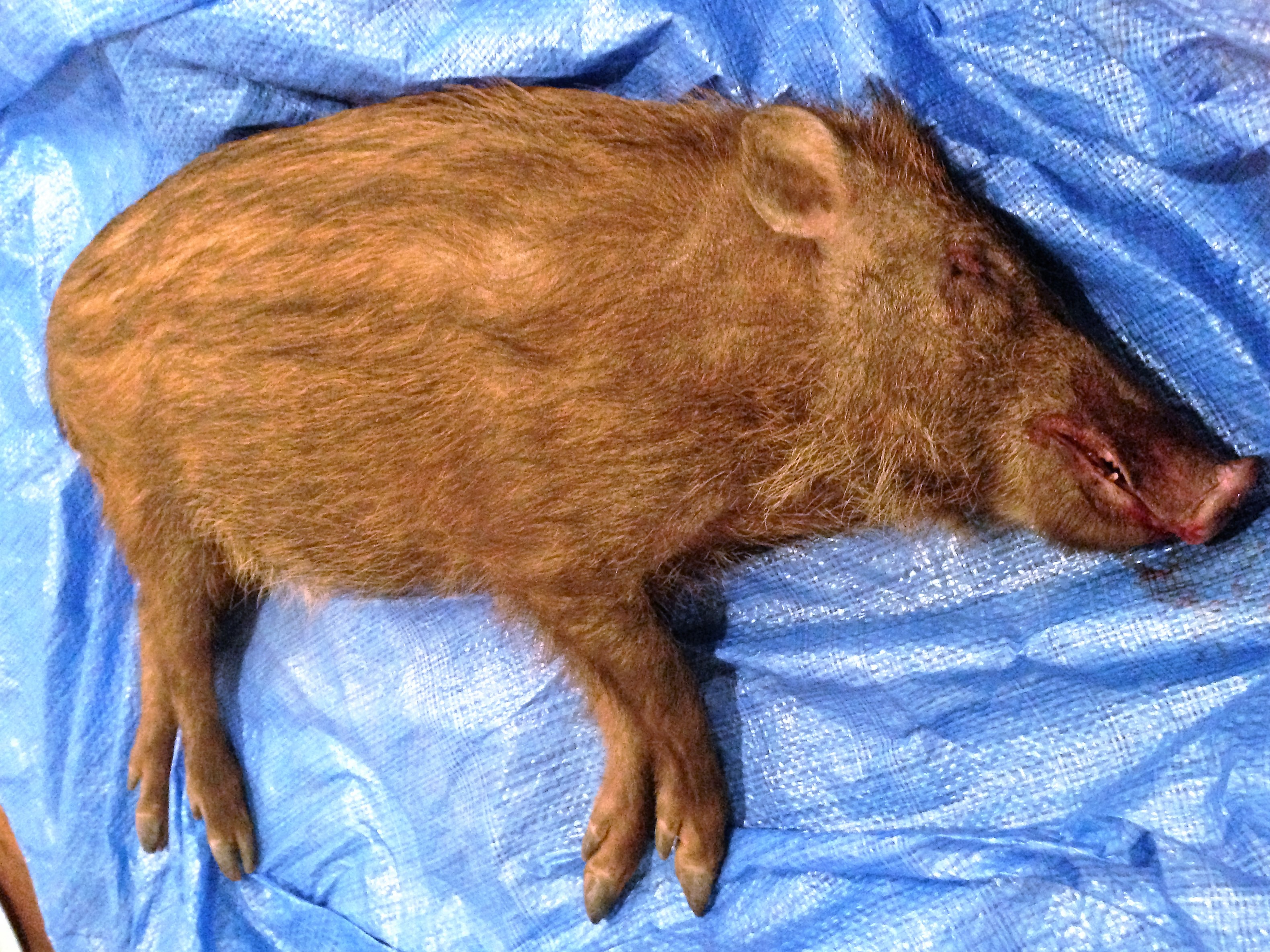 Japanese wild boar / Sus scrofa leucomystax 30kg 2016